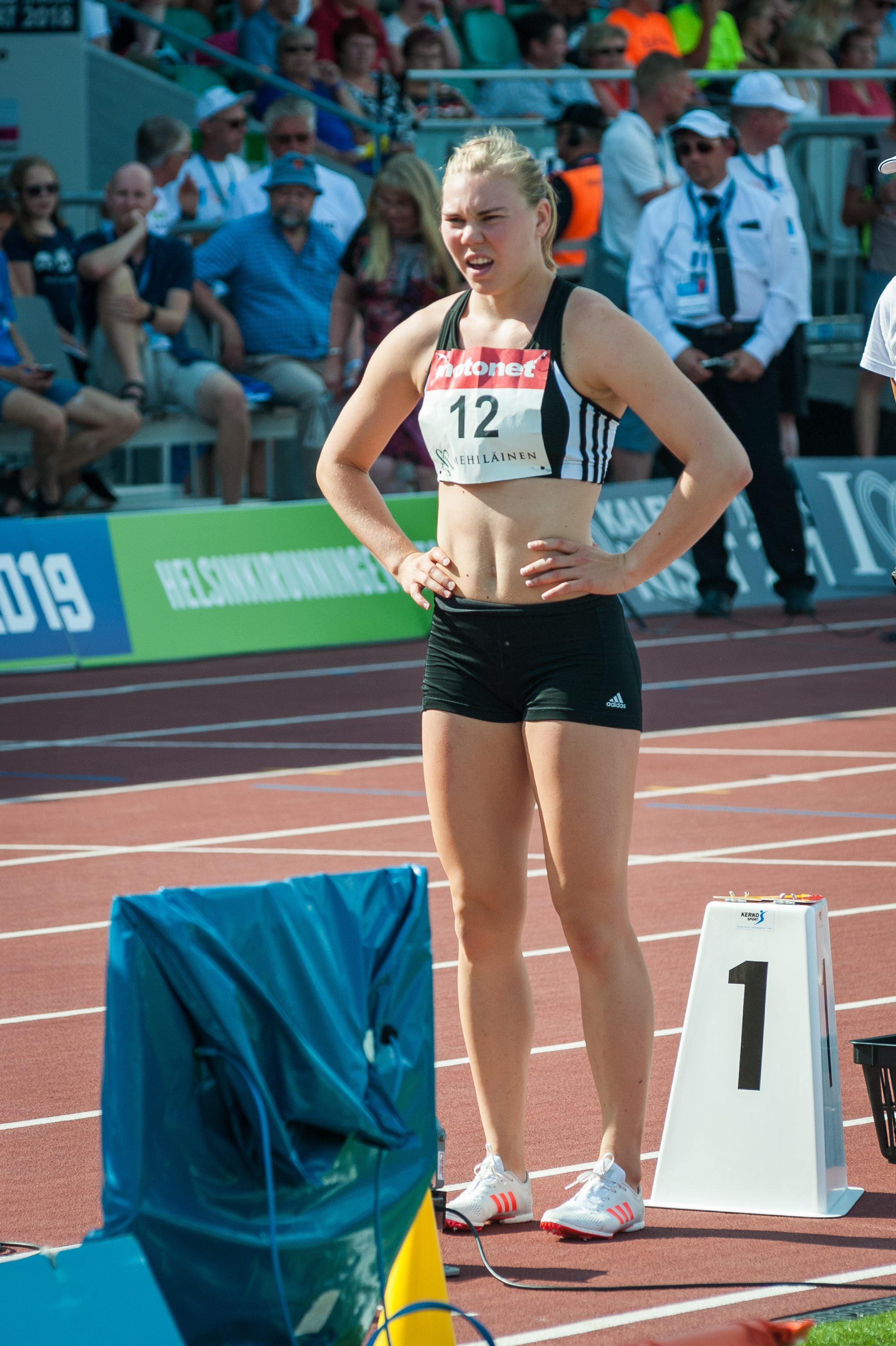 Women's 400 m hurdles competition at the 2018 Kalevan Kisat, the Finnish championships in athletics, in Jyväskylä, Finland.